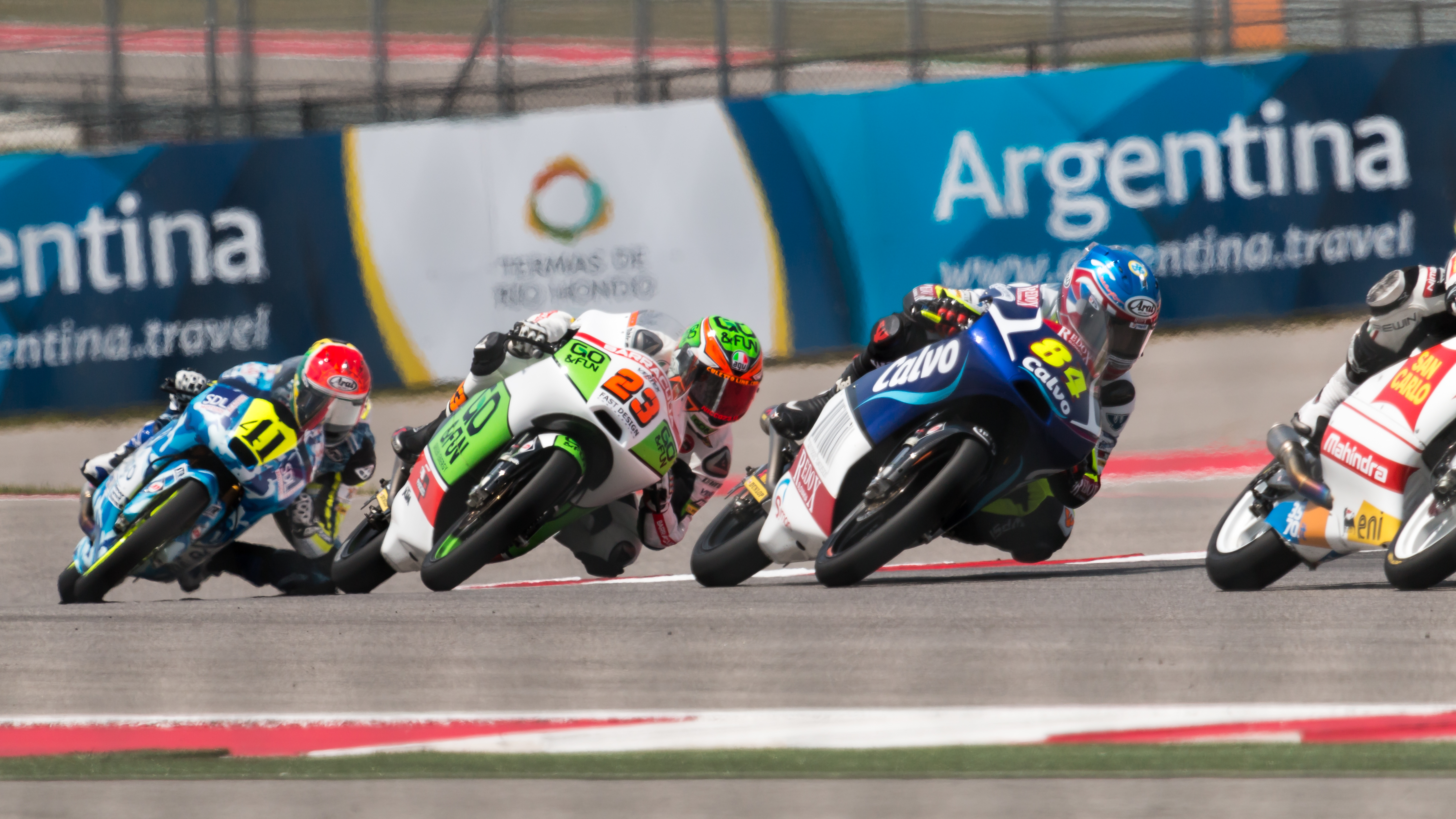 a pack rounds turn 9 at Circuit of the Americas